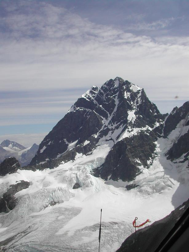 File Name :DSCN0086.JPG File Size :628.7KB(643745Bytes) Date Taken :0000/00/00 00:00:00 Image Size :2048 x 1536 Resolution :300 x 300 dpi Number of Bits :8bit/channel Protection Attribute :Off Hide Attribute :Off Camera ID :N/A Camera :E885 Quality Mode :NORMAL Metering Mode :Matrix Exposure Mode :Programmed Auto Speed Light :No 8second Aperture :F7.6 Exposure Compensation :0 EV White Balance :Auto Lens :Built-in Flash Sync Mode :Red Eye Reduction Exposure Difference :N/A Flexible Program :N/A Sensitivity :Auto Sharpening :Auto Image Type :Color Color Mode :N/A Hue adjustment :N/A Saturation Control :Normal Tone Compensation :Auto Latitude(GPS) :N/A Longitude(GPS) :N/A Altitude(GPS) :N/A